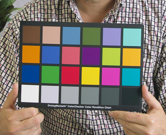 a Gretag–Macbeth ColorChecker color chart being held in a photogrpahic portrait setting